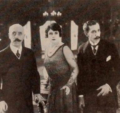 Still from the American drama film The Caillaux Case (1918) with Henry Warwick, Madlaine Traverse, and George Majeroni, on page 21 of the May 25, 1918 Exhibitors Herald.